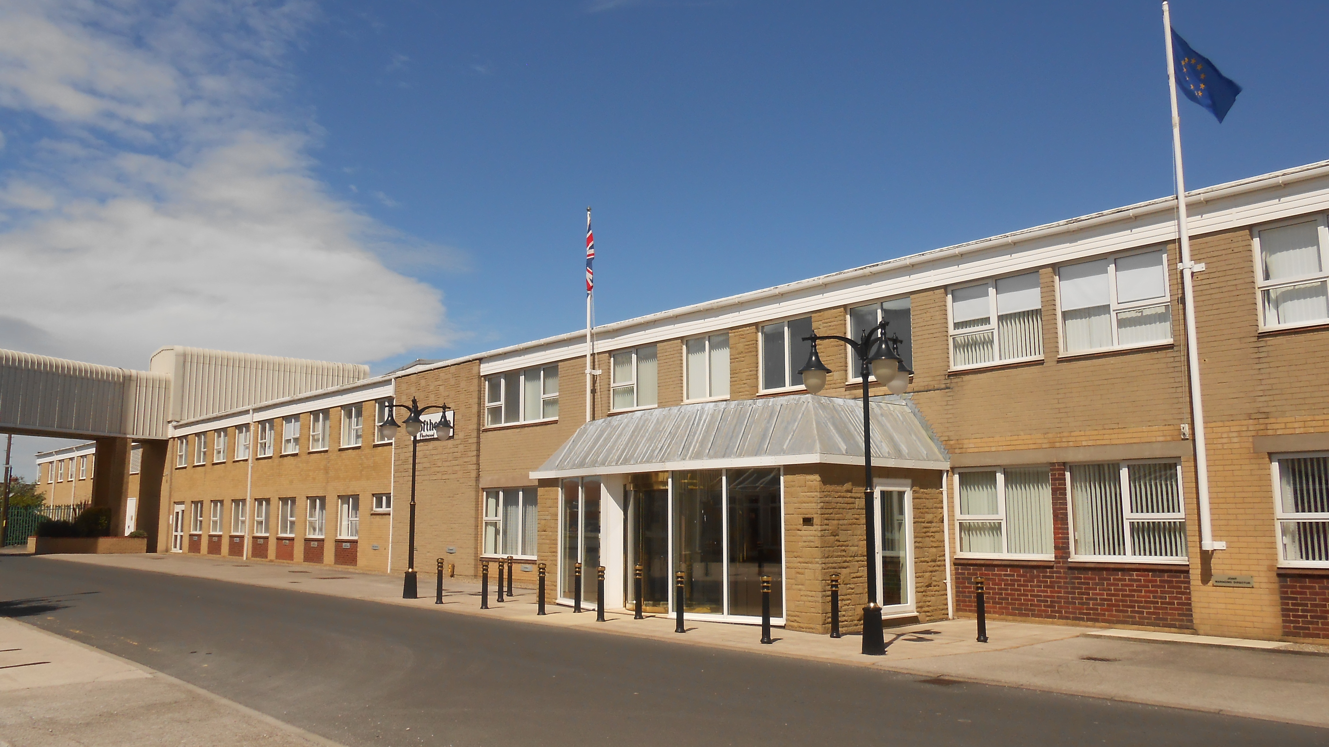 Fisherman's Friend facilities in Fleetwood, Lancashire.